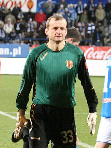 Polish football player Zbigniew Małkowski